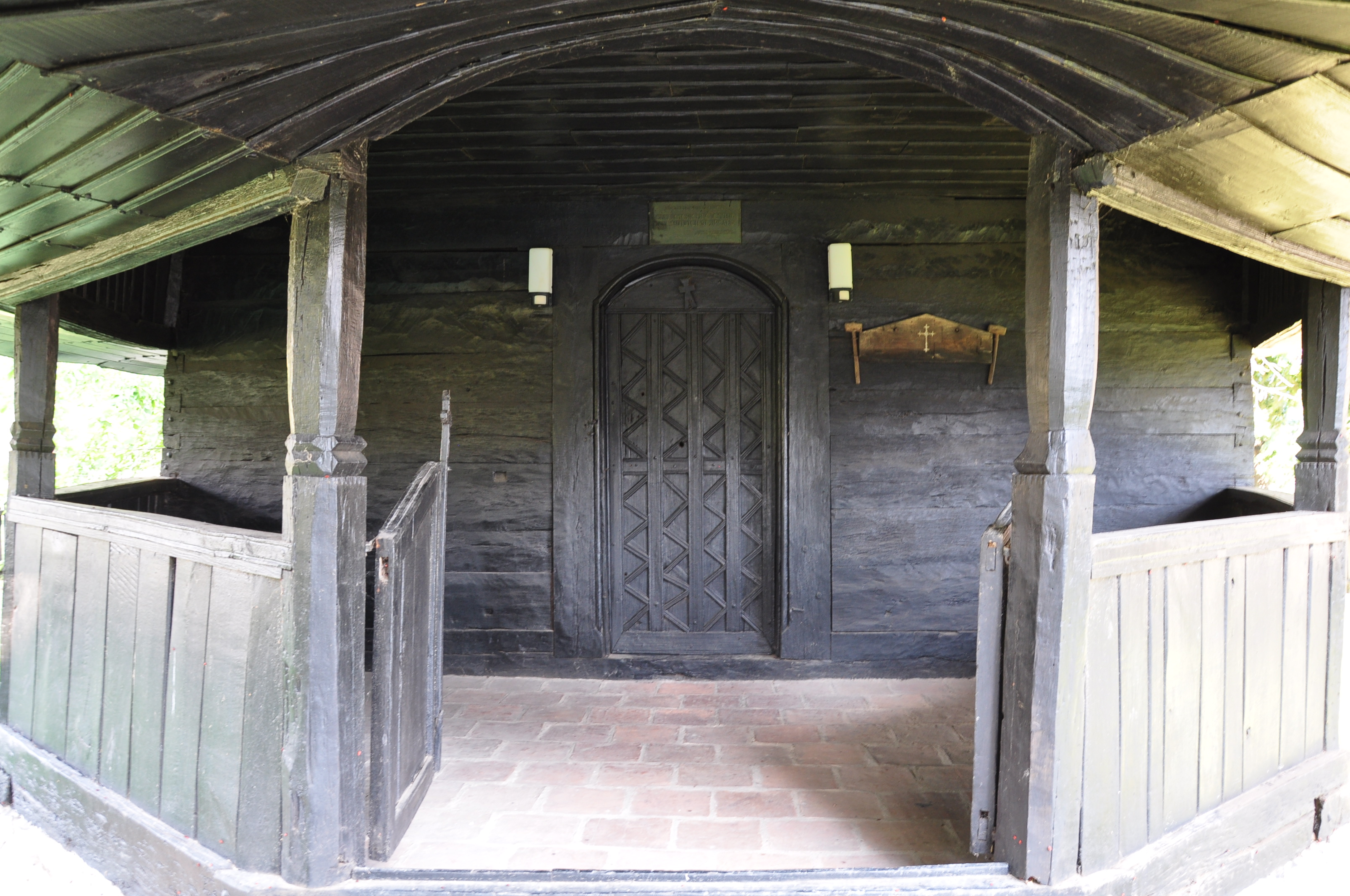 Wooden church in Brzan